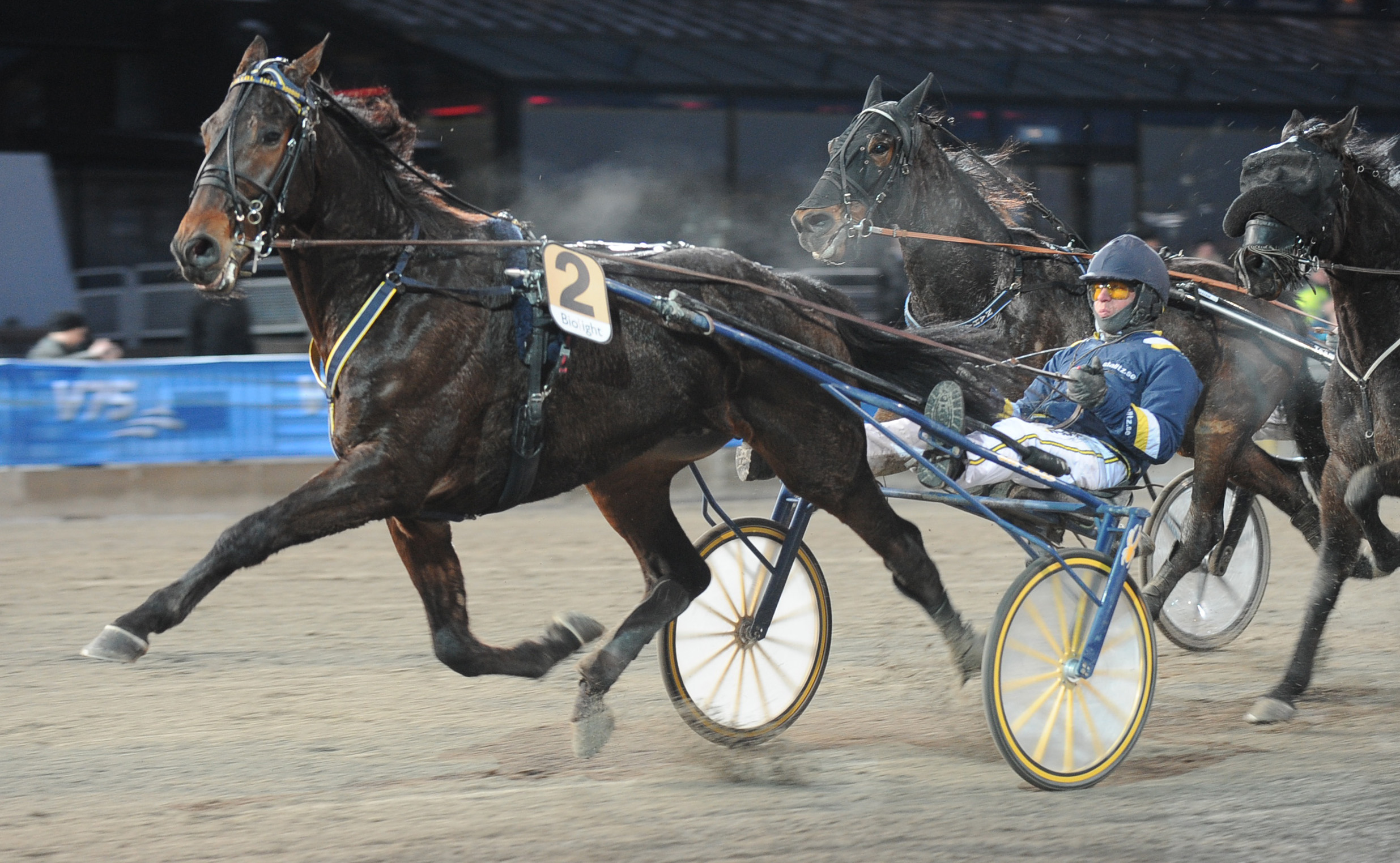 foto : ck : digital_ink_kihlström örjan_kurv. Swedish trotting horse Digital Ink. Driver Örjan Kihlström.